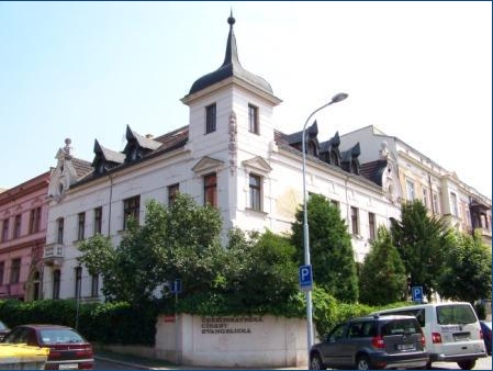 Diaconia in Litoměřice